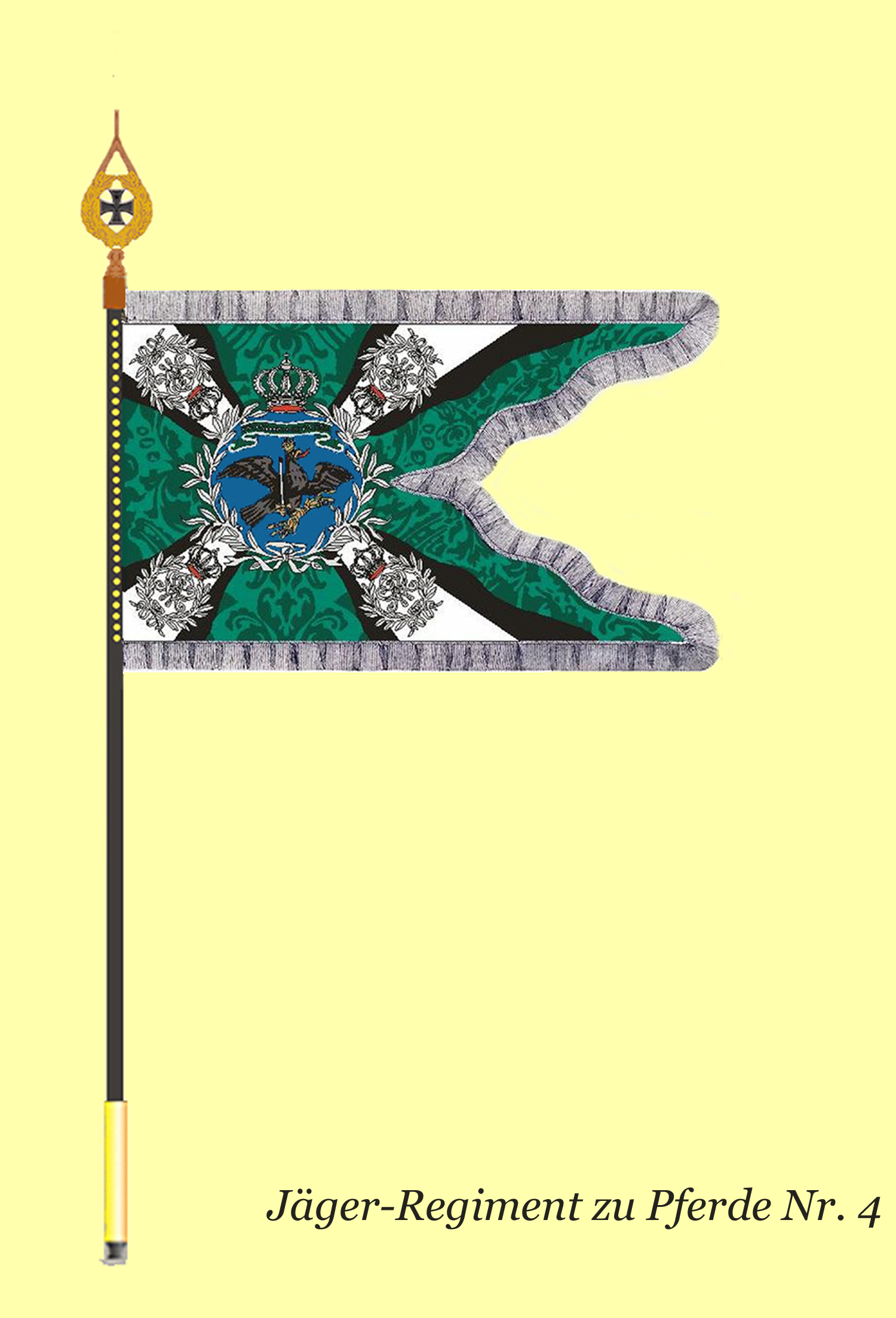 Colors of the royal prussian 4th Regiment of Mounted Rifles